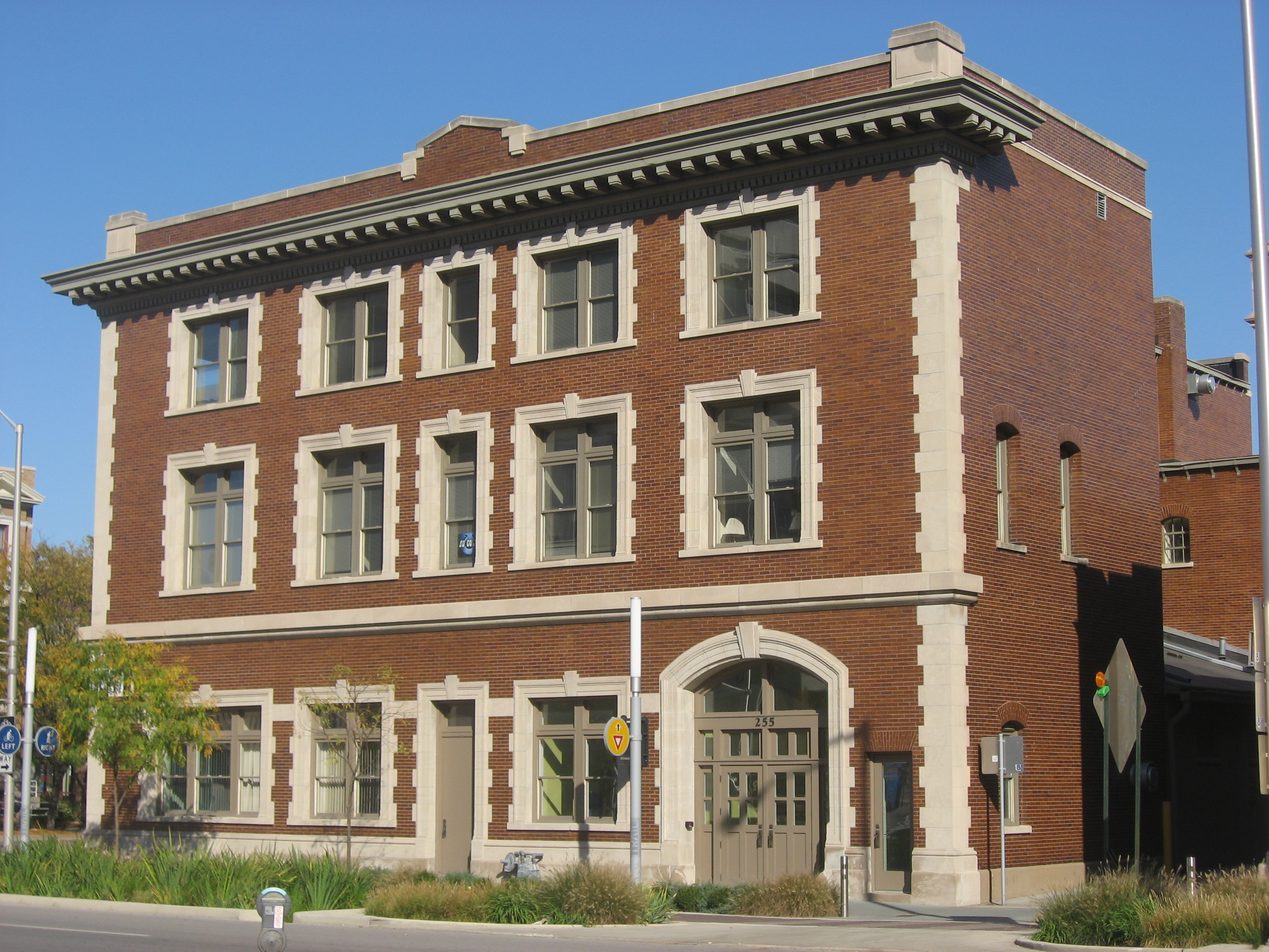 Front of the former Indianapolis Fire Headquarters, located at 301 E. New York Street in Indianapolis, Indiana, United States. Built in 1913 and since closed, it is listed on the National Register of Historic Places.